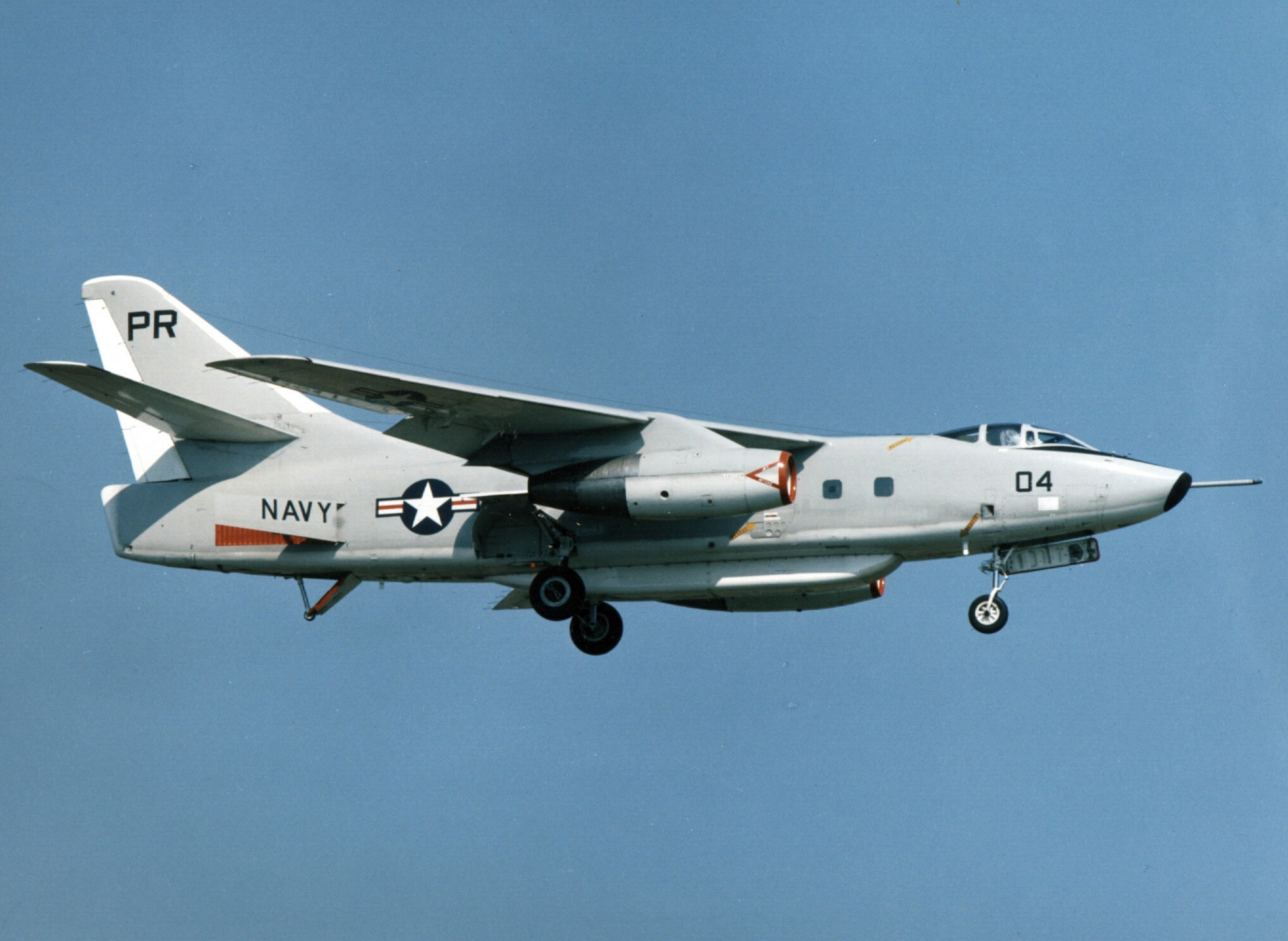 A U.S. Navy Douglas EA-3B Skywarrior from Fleet Air Reconnaissance Squadron 1 (VQ-1) World Watchers flying out of Naval Air Facility Atsugi, Japan.